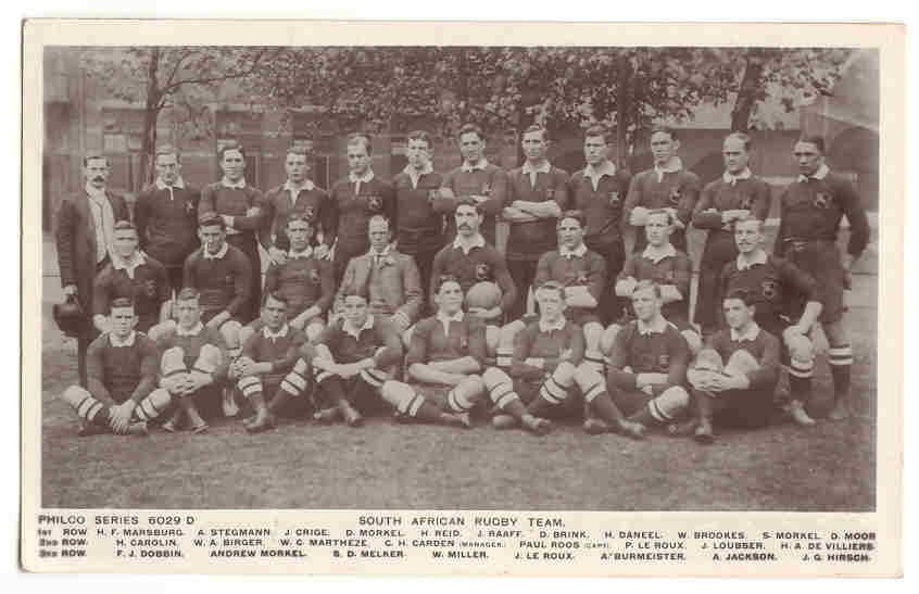 The "Springboks" (South African national rugby union team).